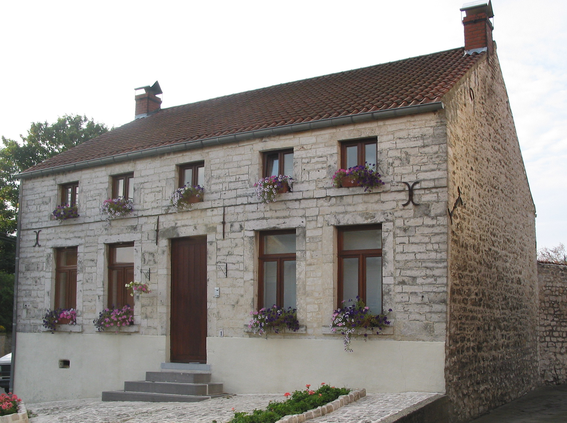 Mélin (Belgium), small house built out of white sandstones (stone of Gobertange).